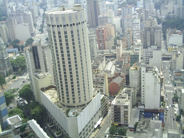 Ipiranga 165 building in downtown São Paulo - former São Paulo Hilton Hotel, now an office building